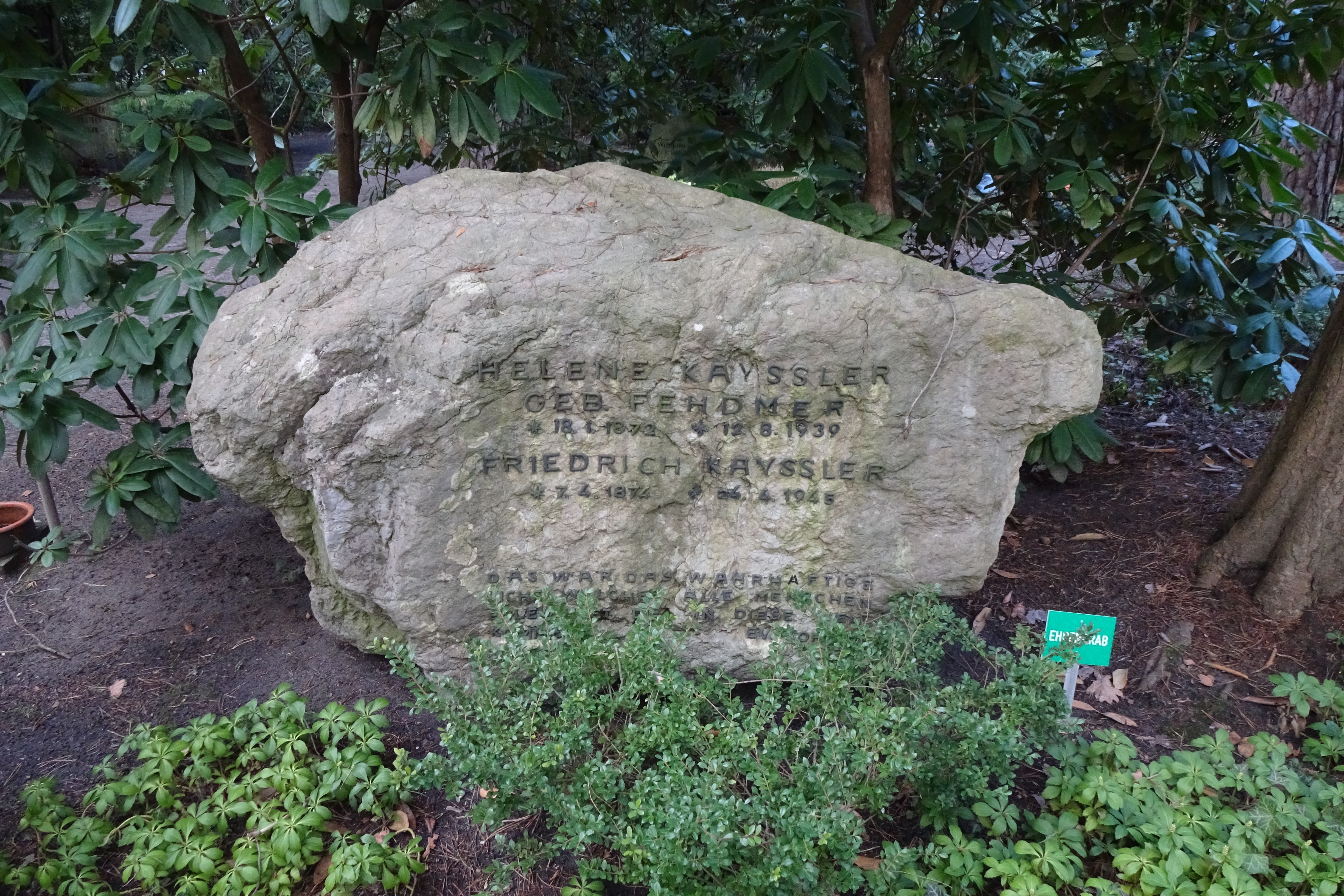 Grave of German actors Helene Fehdmer and Friedrich Kayssler in Waldfriedhof Kleinmachnow, Kleinmachnow near Berlin